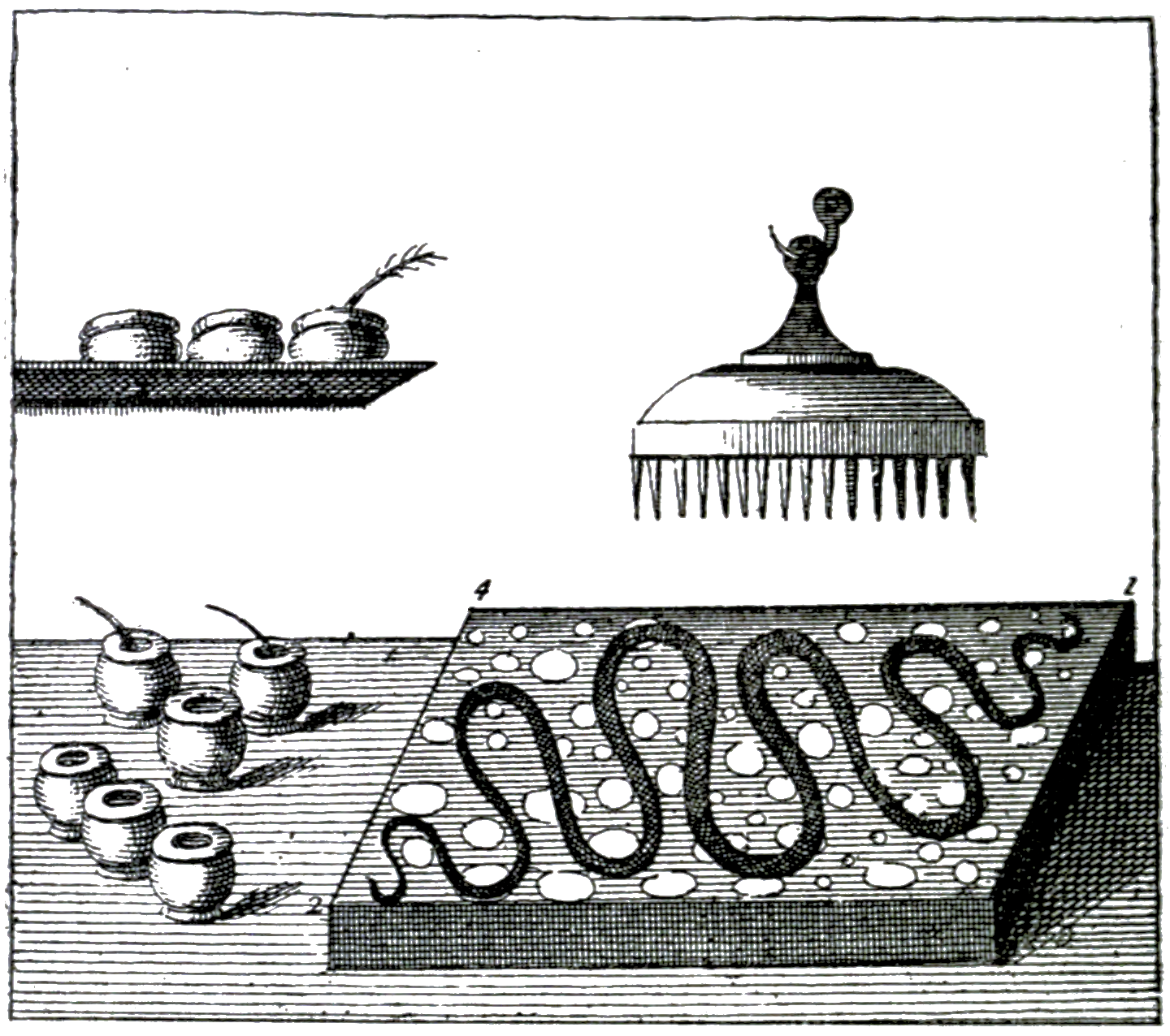 Cut from the book School of Arts (1750) as reproduced in The Art of Bookbinding by Joseph William Zaehnsdorf.